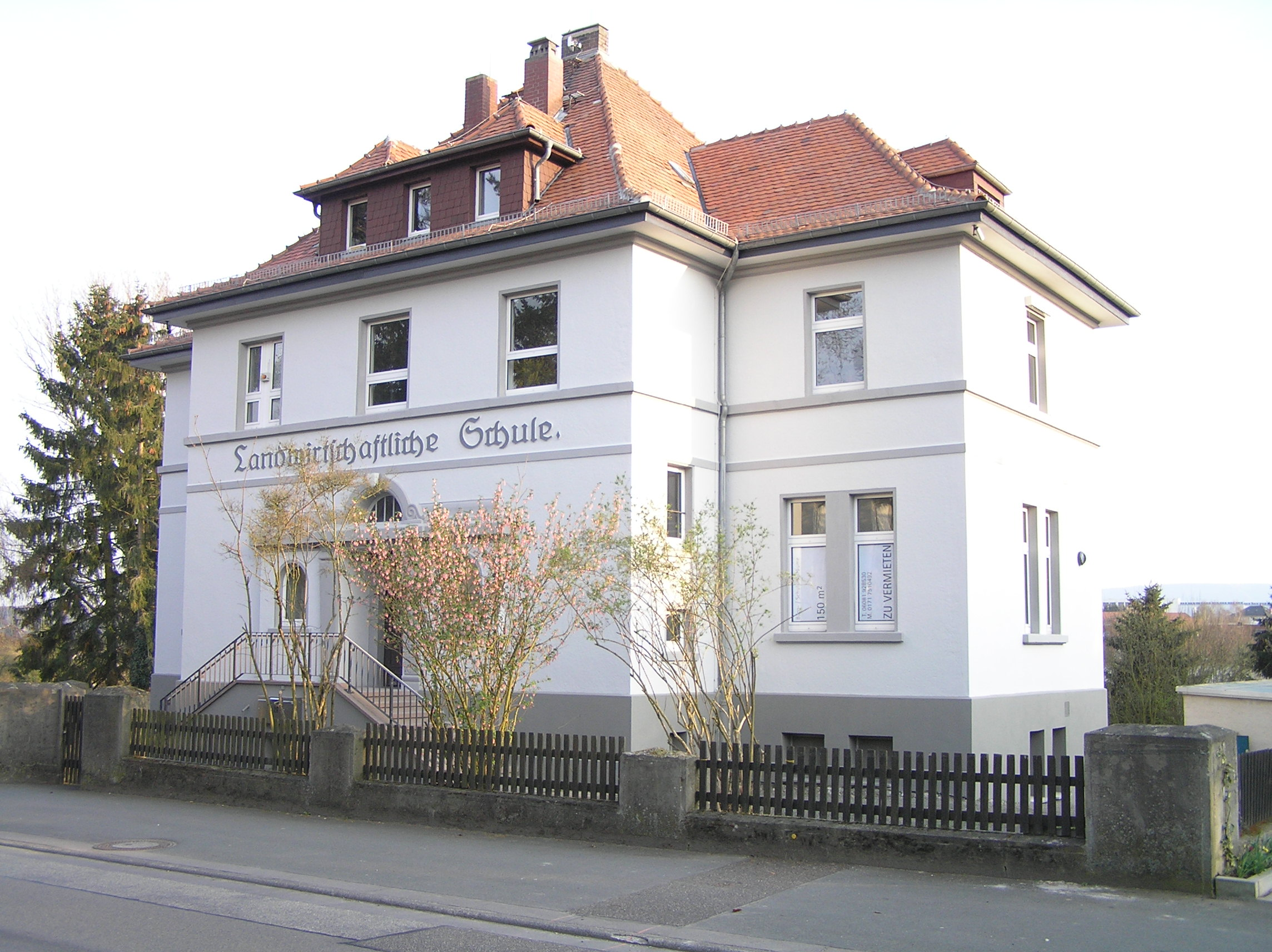 Former agricultural school, Usingen, Germany